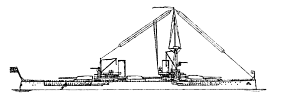 Top: An early version of the design of the Greek battleship Salamis